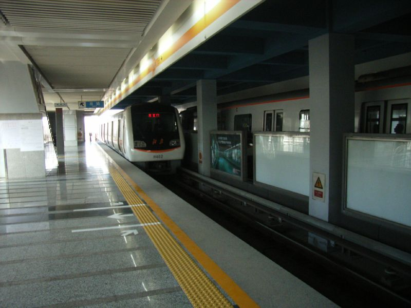 Beijing subway Shaoyaoju station (light rail line 13)